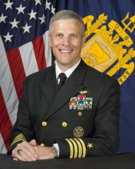 Portrait of Captain Matthew L. Klunder, USN, Commandant of Midshipmen at the United States Naval Academy.